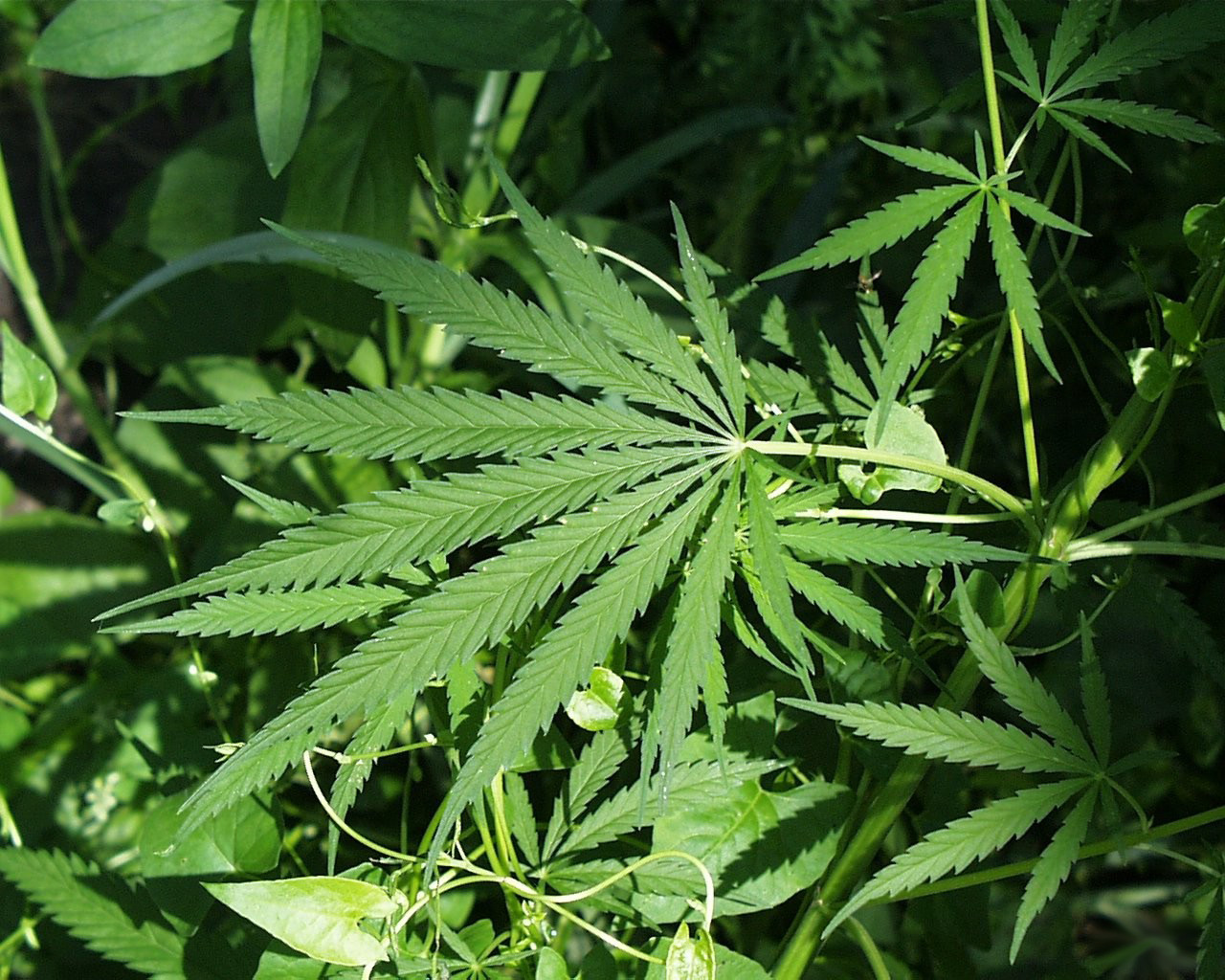 A photograph of hemp (Cannabis sativa L.) in Sherburne National Wildlife Refuge. A photograph of a cannabis plant. The photo at that site is marked as being copyright-free, and is credited to the United States Fish and Wildlife Service. A thumbnail of this photo was originally uploaded to the English Wikipedia by User:AxelBoldt.